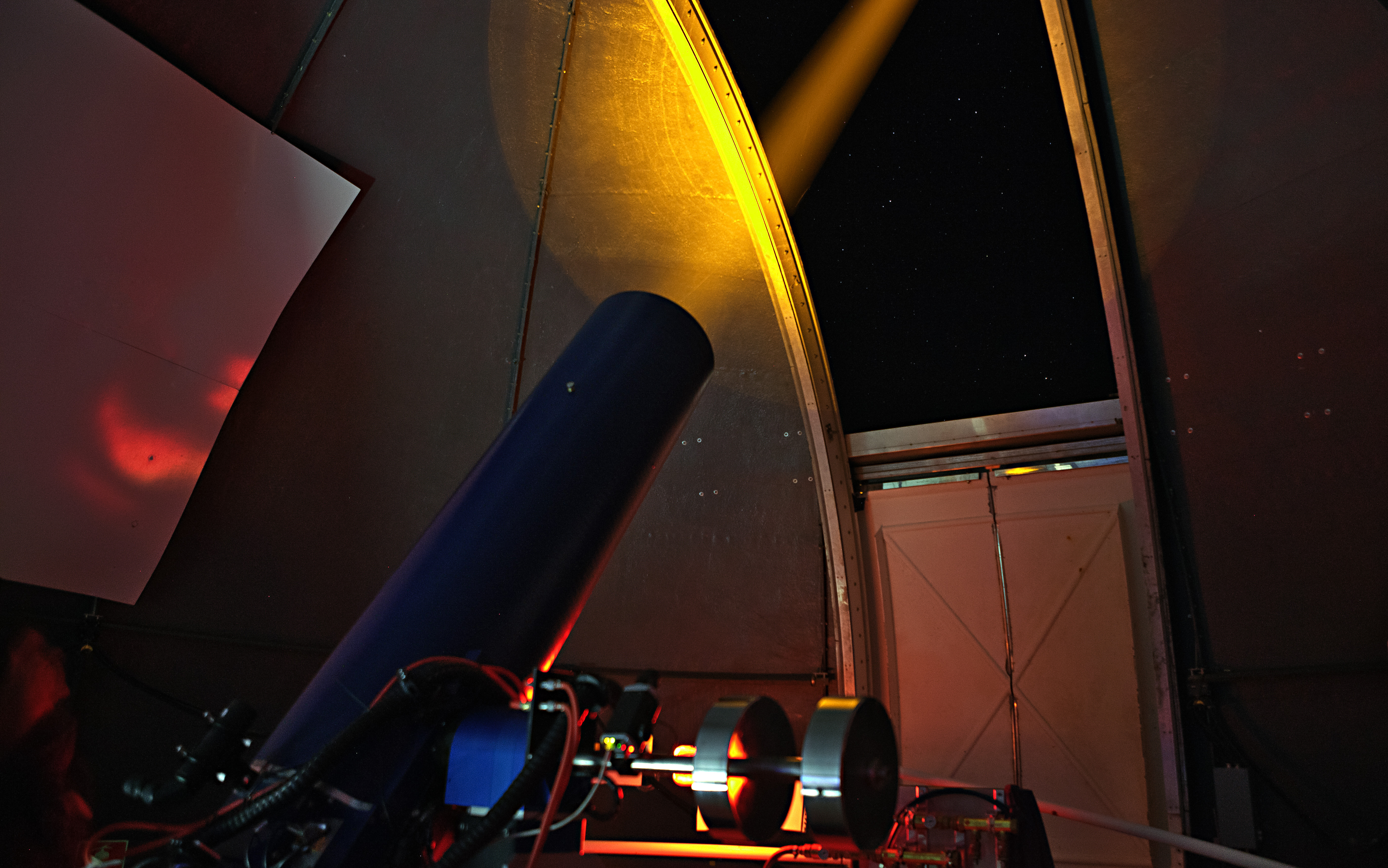 A team of astronomers and engineers from ESO, the Instituto de Astrofísica de Canarias (IAC), the Gran Telescopio CANARIAS and INAF Osservatorio Astronomico di Roma achieved first light and successful commissioning of the ESO Wendelstein Laser Guide Star system at the IAC's Observatorio del Teide on Tenerife in Spain in January 2015.